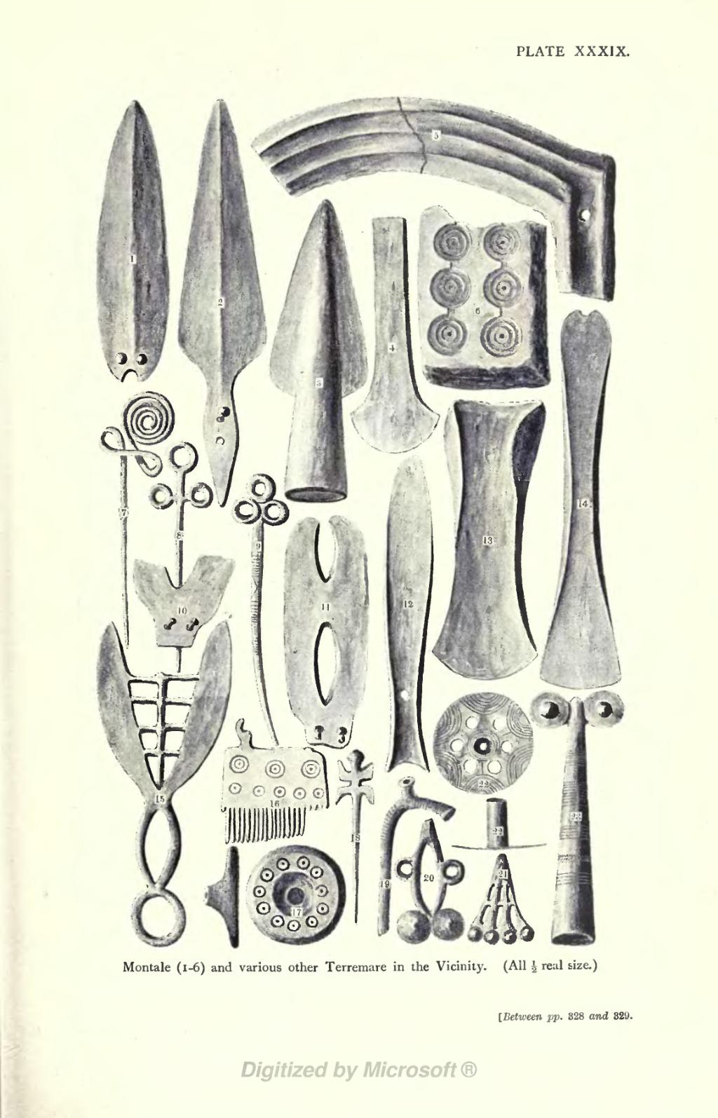 Montale (1-6) and various other Terremare in the Vicinity. (All ½ real size.) [Between pp. 328 and 329.